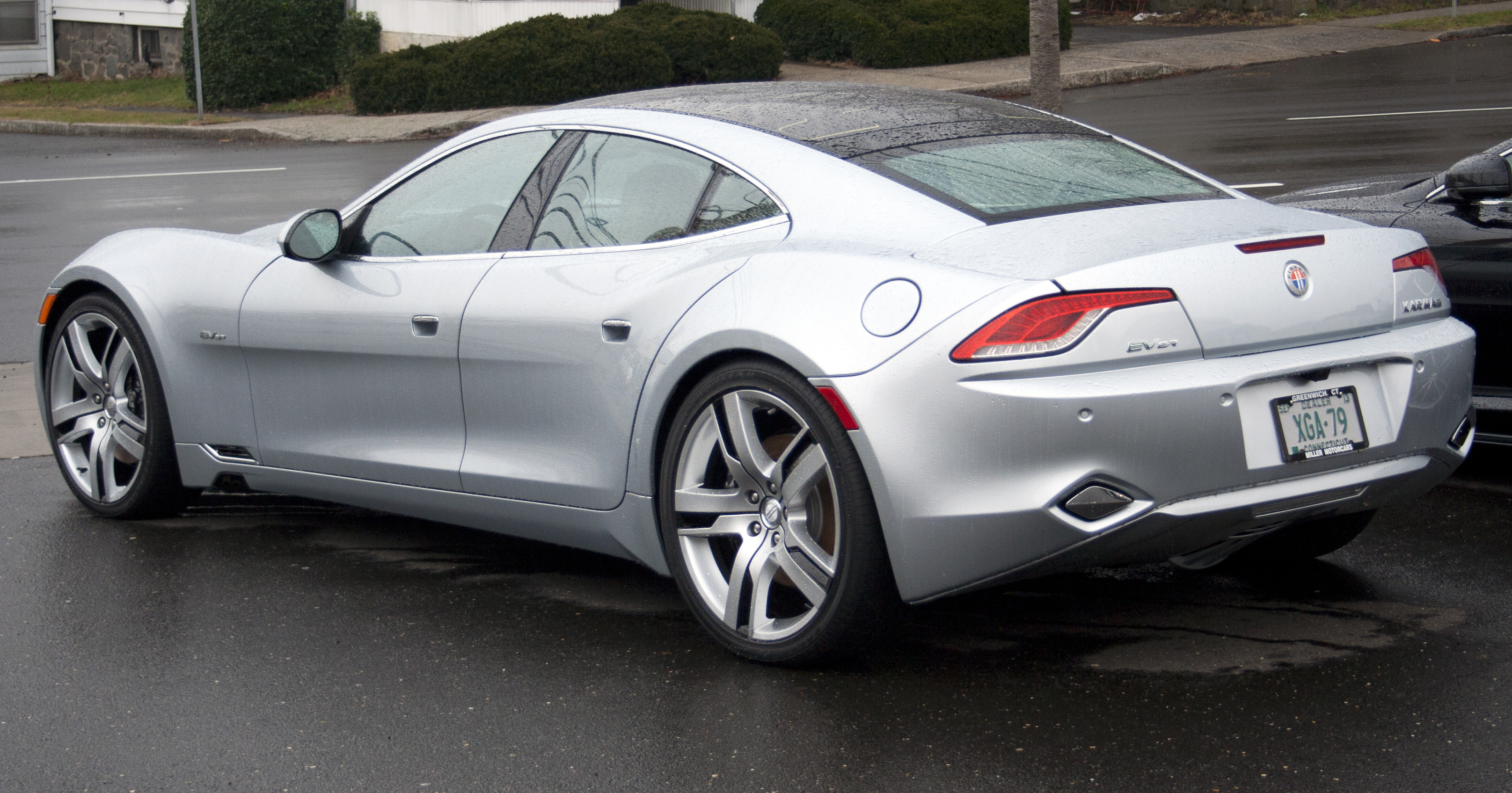 Rear view of 2012 Fisker EVer Karma EC in Greenwich, CT